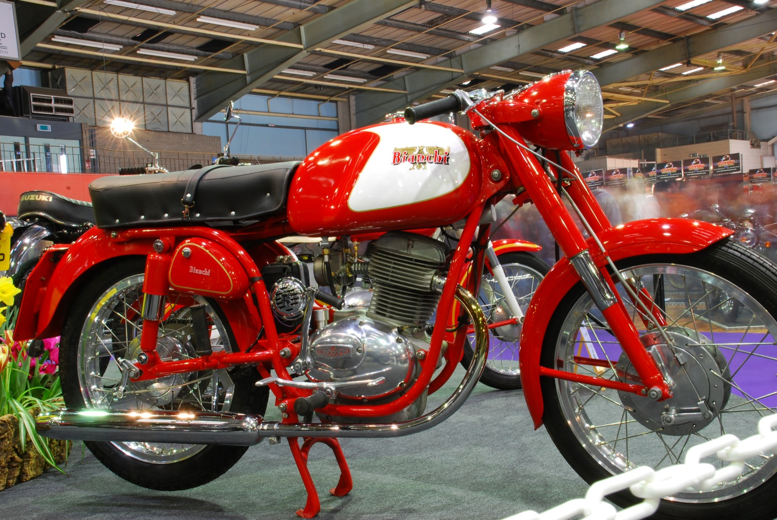 1960, owned by H. Fleming @ Scottish Motorcycle Show 2008